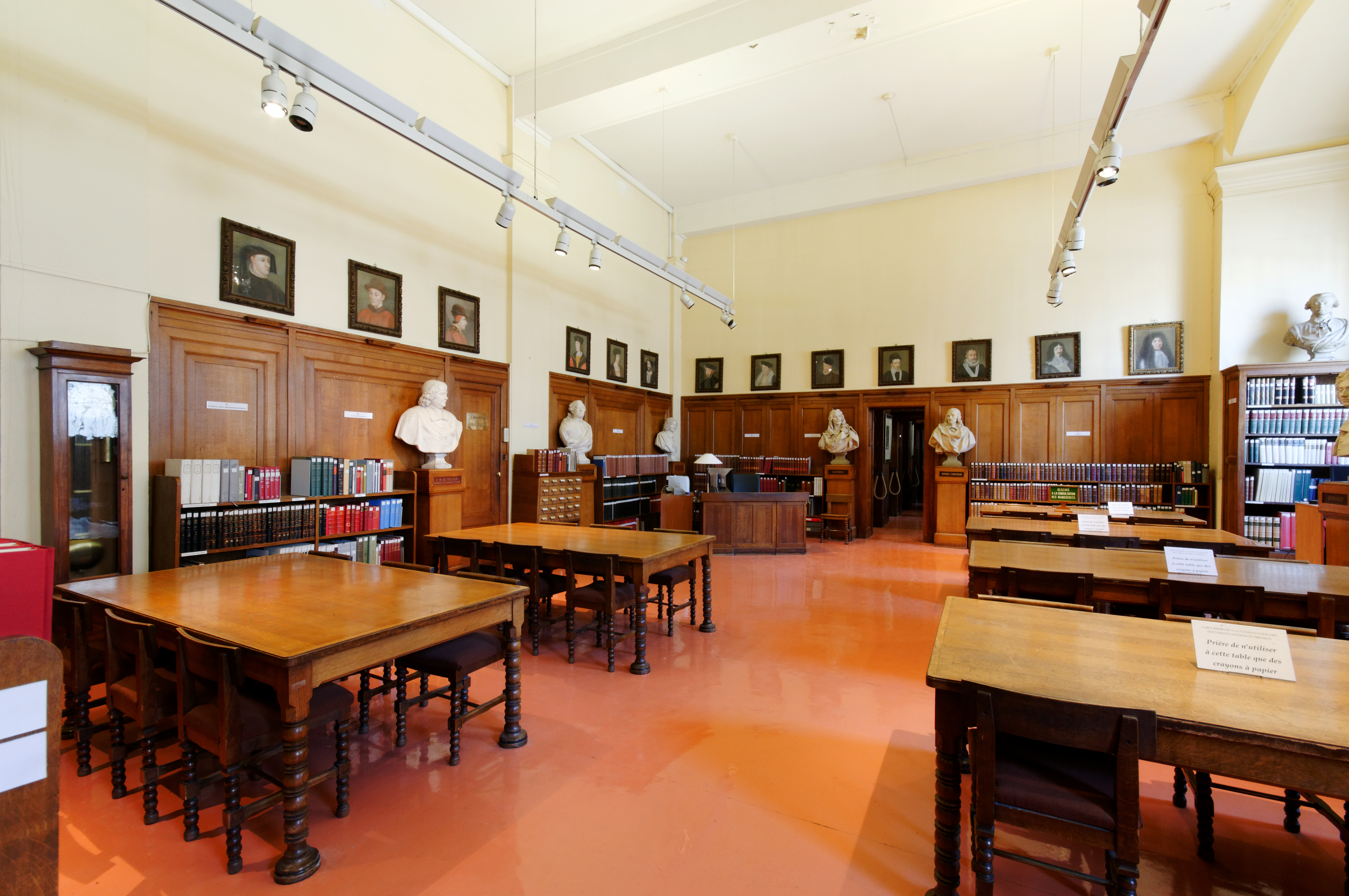 Reading room of the restricted section, Bibliothèque Sainte-Geneviève, Paris.